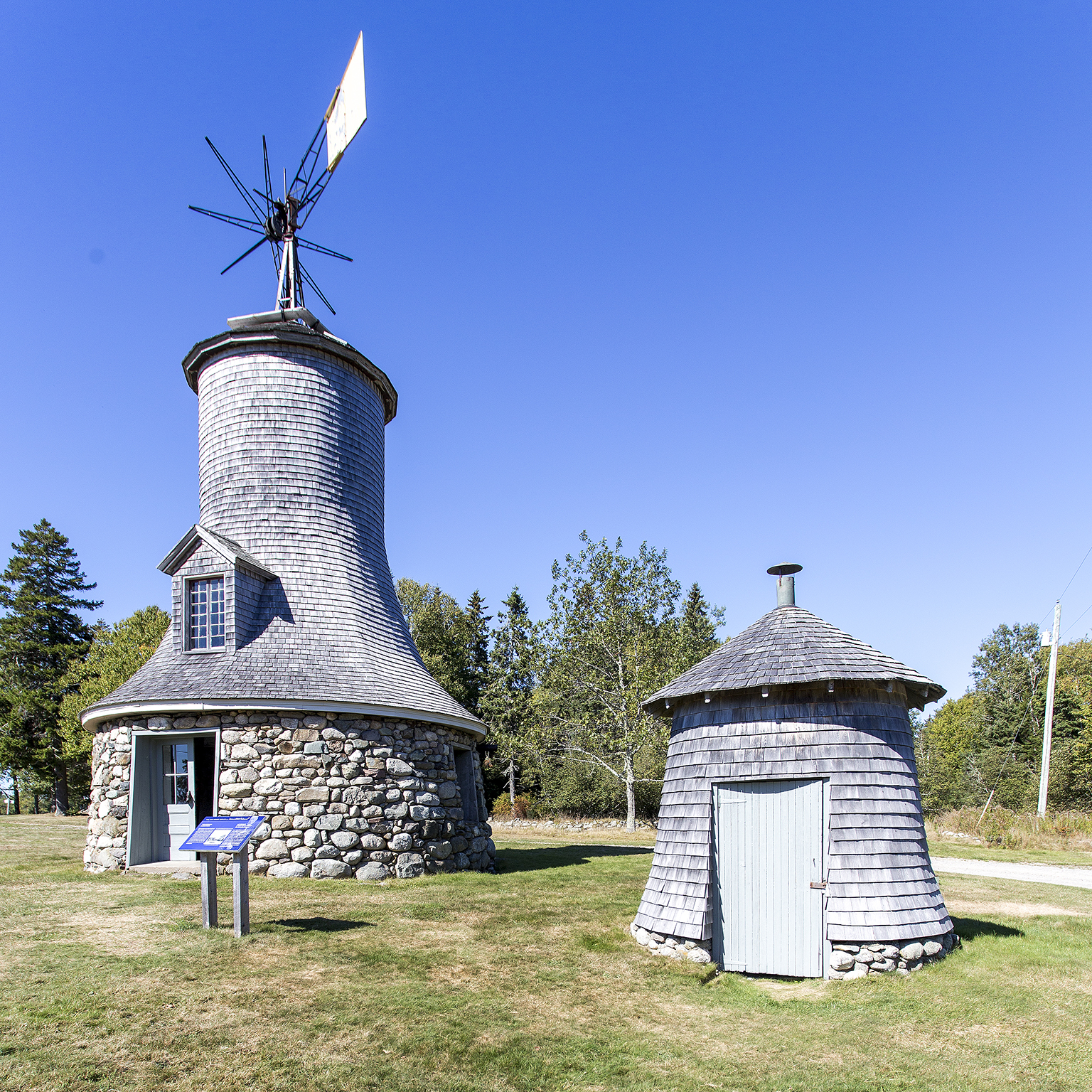 Windmill and House for generating carbide gas